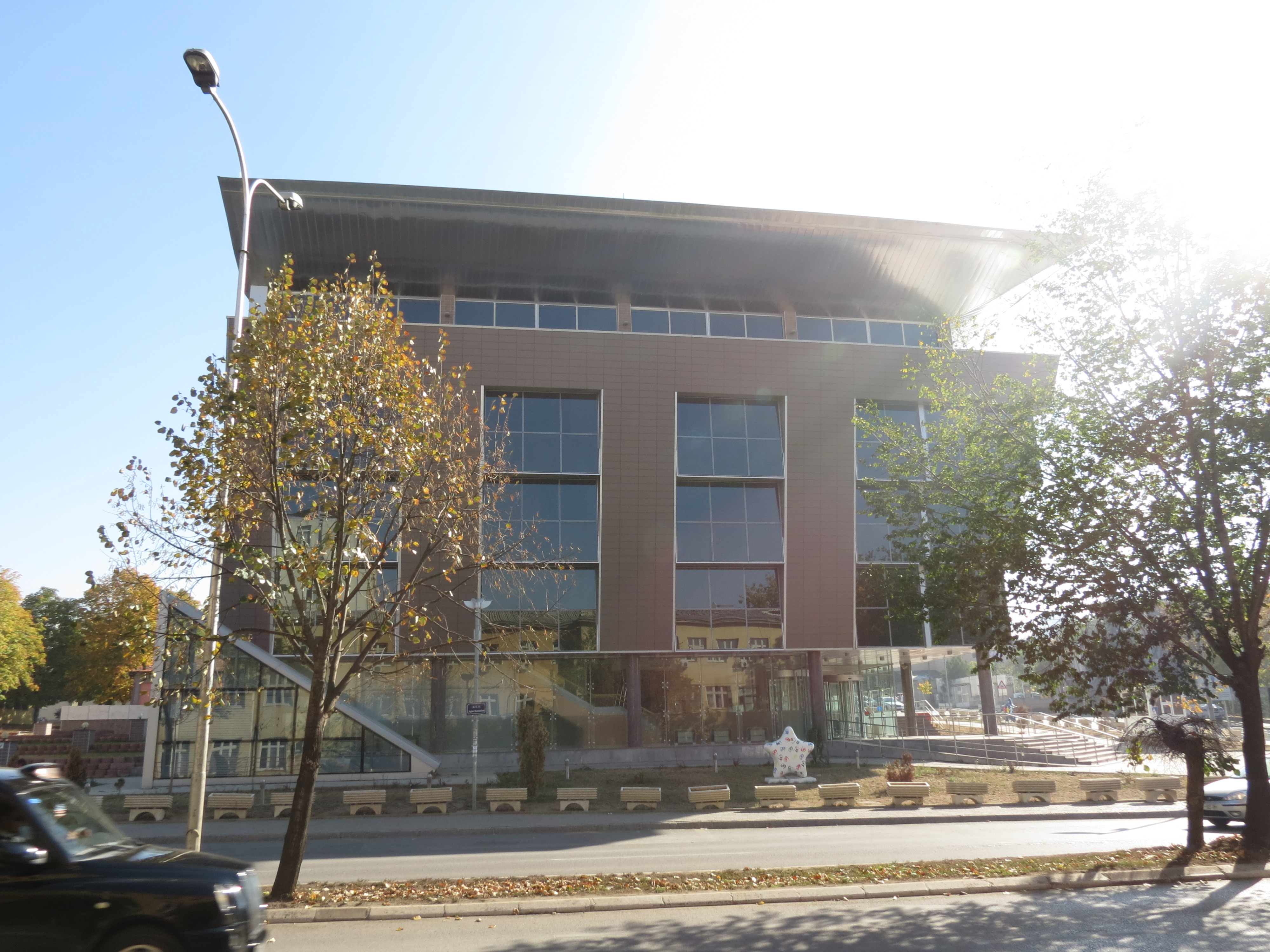 Ministry of Education, Science and Technology of Kosovo on Agim Ramadani Street (Rr. St. Ul. Agim Ramadani) in Pristina.